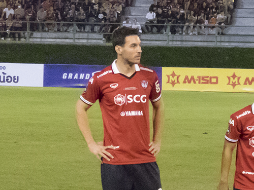 Xisco before the Thai Champions Cup 2016